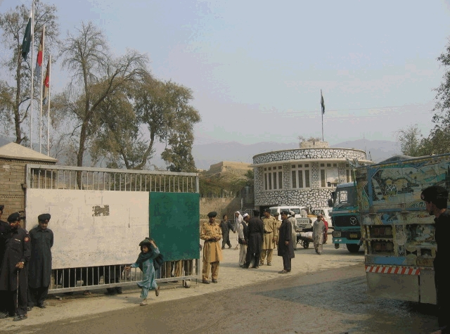 Torkham border crossing, located on the Durrand Line border between Nangarhar province of Afghanistan and the NWFP province of Pakistan.